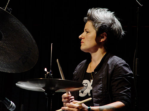 Alison Miller at Reykjavik Jazz Festival 2015